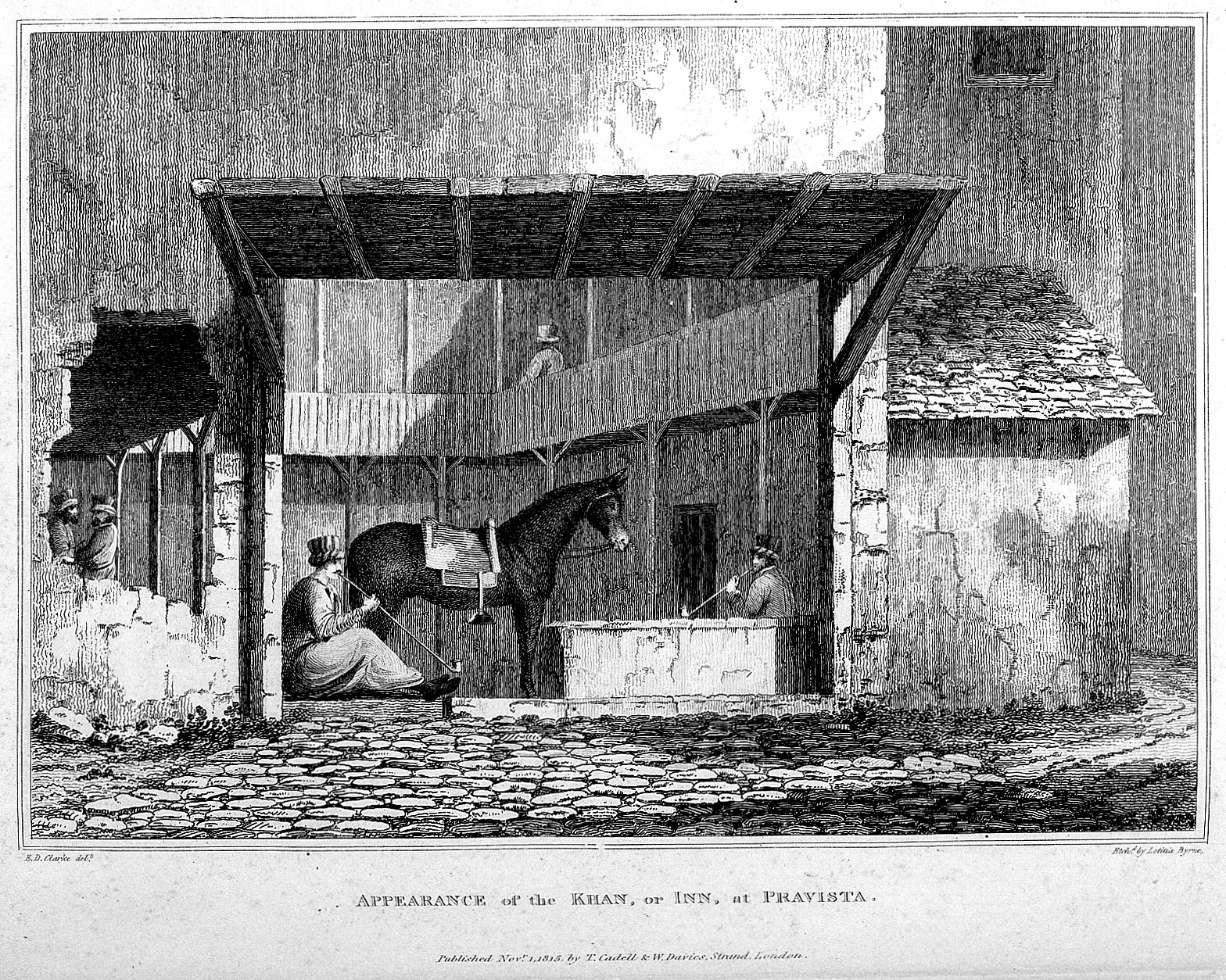 "Appearance of the Khan, or Inn, at Pravista". Rare Books